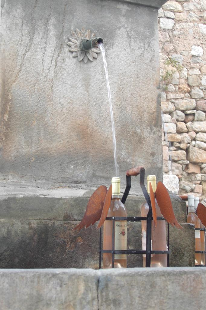 Fontaine Seillans les deux rocs